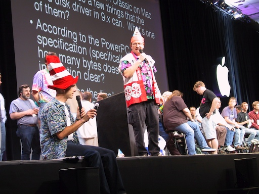 Stump the Experts, WWDC 2002.